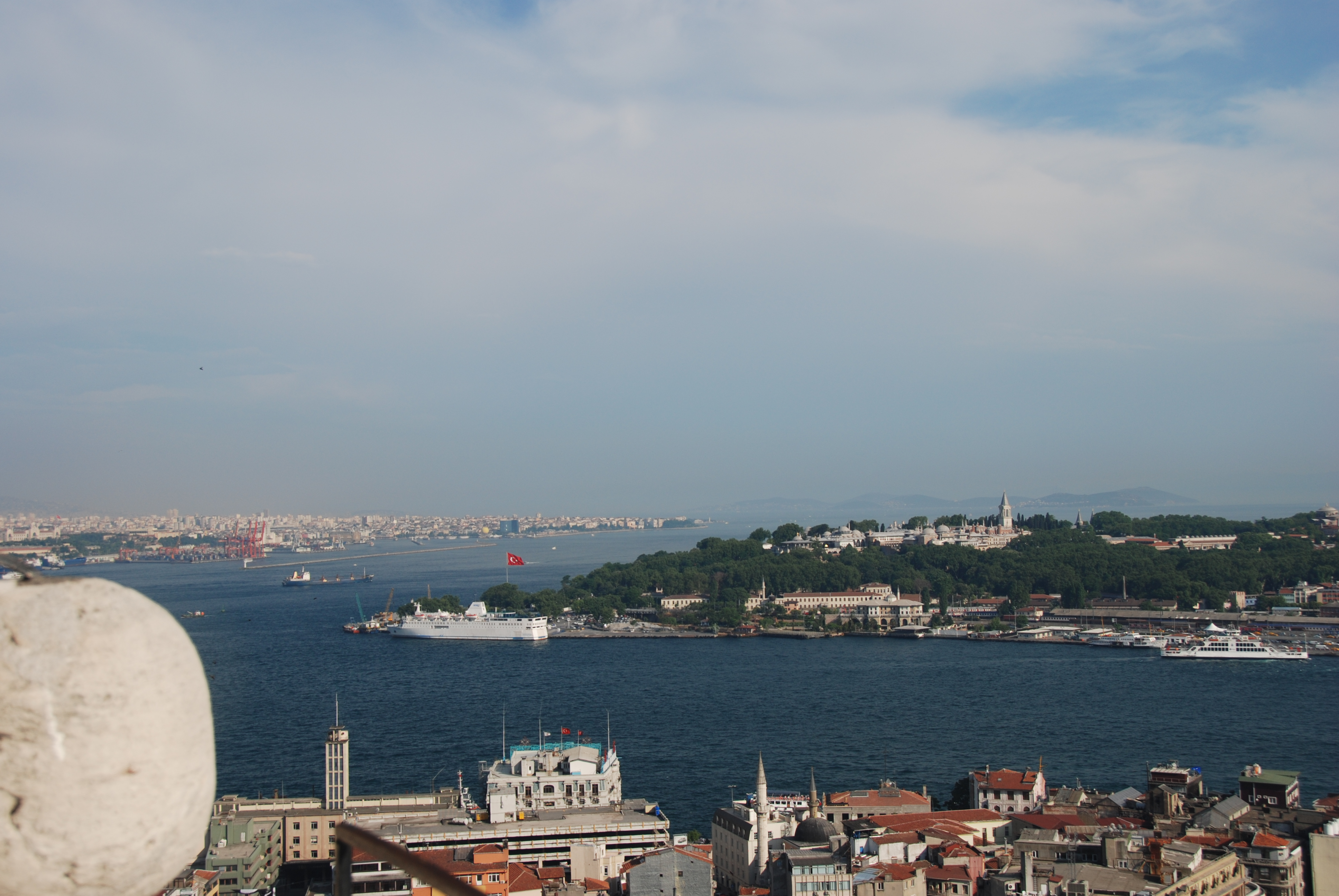 Taken from the Galata tower In Istanbul, Turkey. The prominence with the ship in the photo center is Sarayburnu Park.